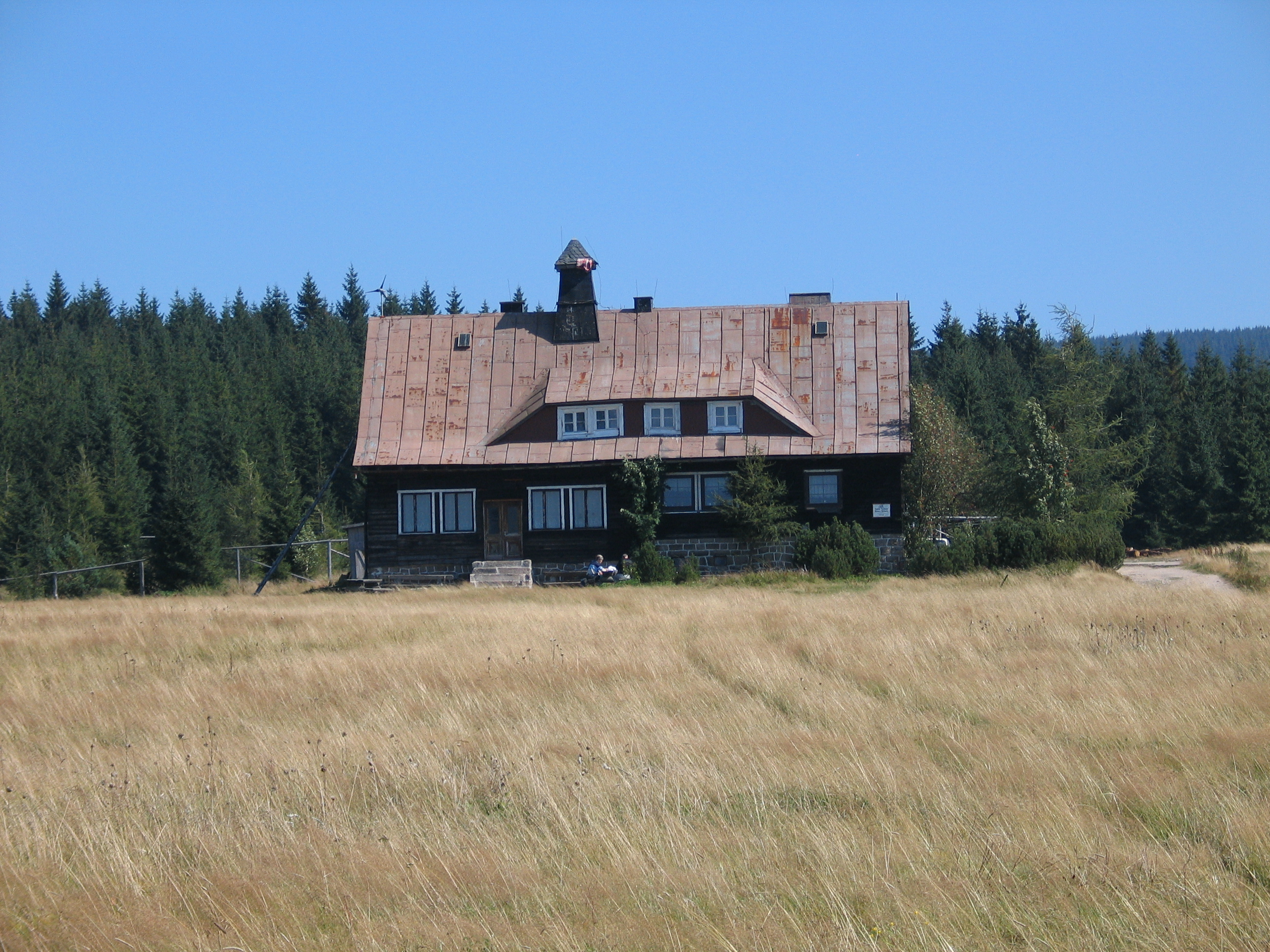 Chatka Górzystów hostel in the Jizera Mountains, Poland